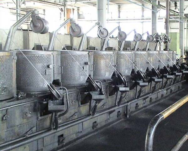 Multiple wire drawing machine